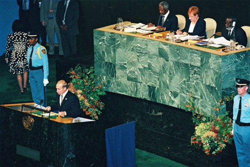 NEW YORK. President Vladimir Putin delivering a speech at the Millennium Summit meeting.